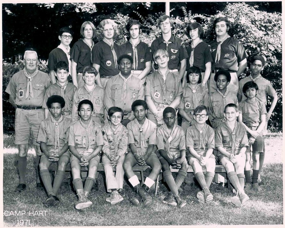 Troop 152 Scouts, Philadelphia, at Camp Hart (Pennsylvania)